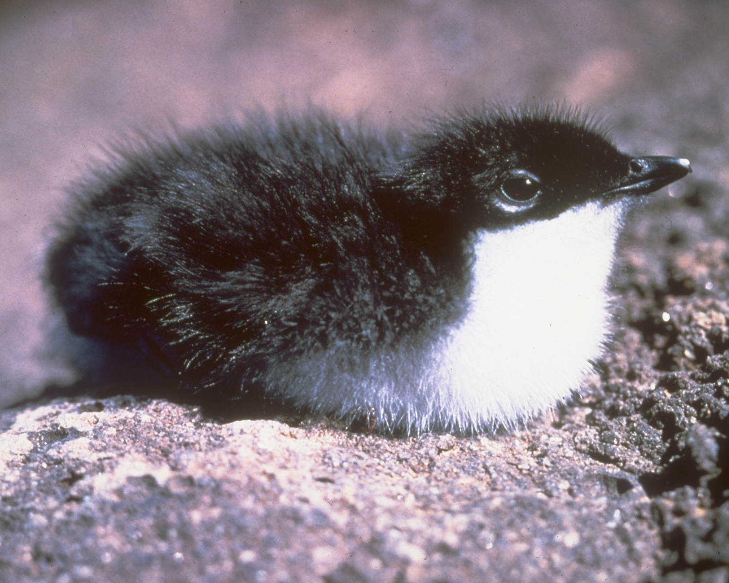 Santa Barbara Island hosts the largest breeding population of Xantus' murrelets in the United States. The tiny chicks leave their steep hillside nests when only 48 hours old and tumble down into the crashing surf.